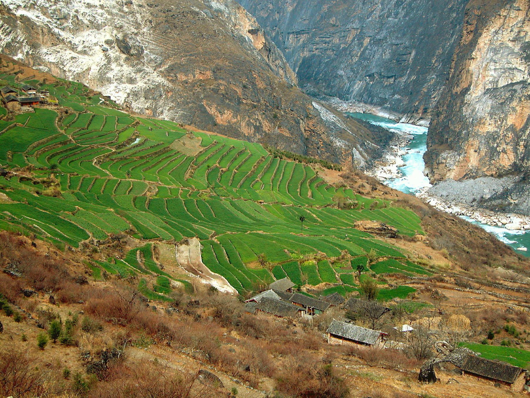 Terraces part way up the sides of the worlds deepest gorge, the Tiger Leaping gorge.Yunnan Terraces